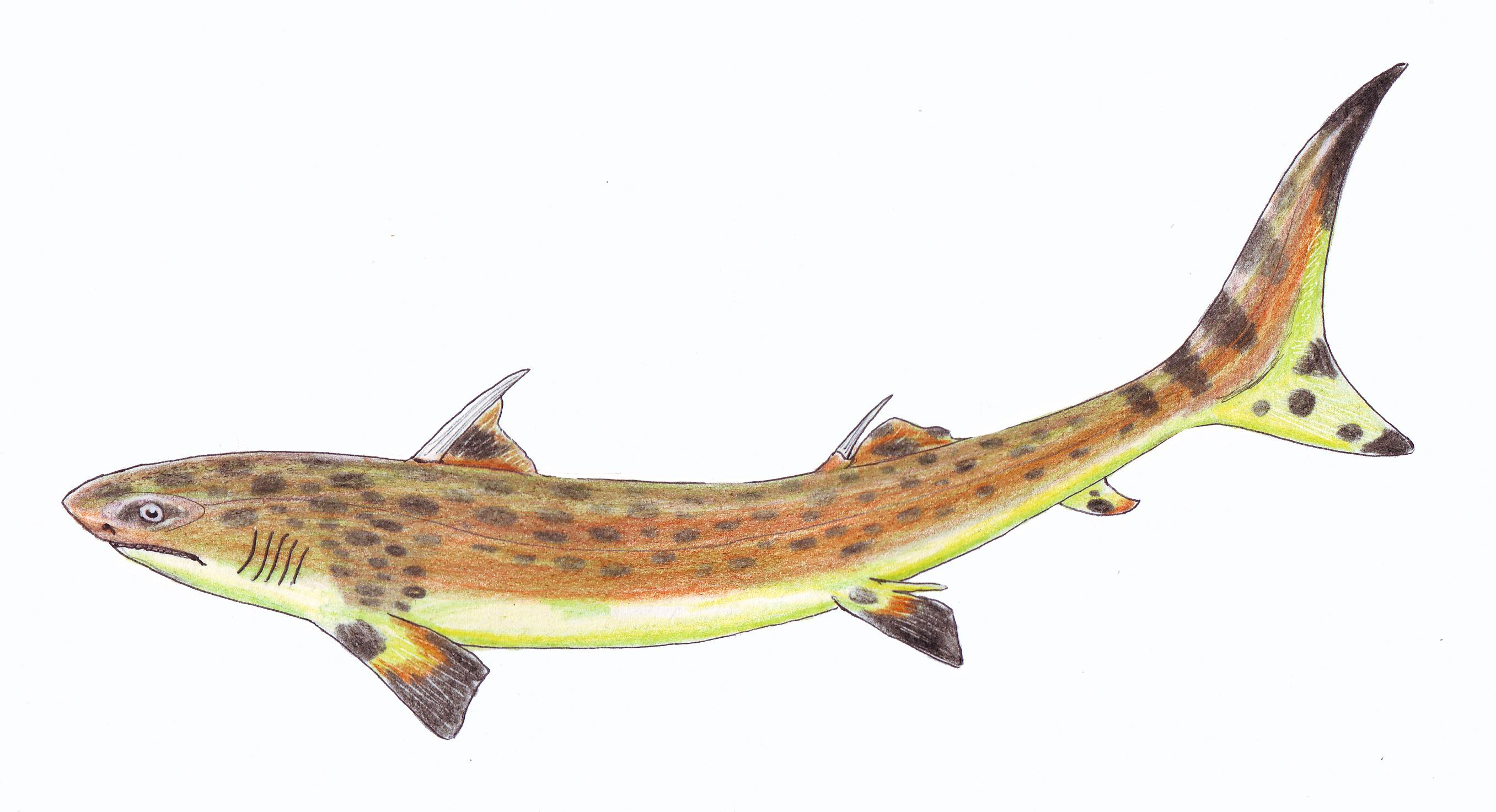 Wodnika striatula from Late Permian of Germany and Russia